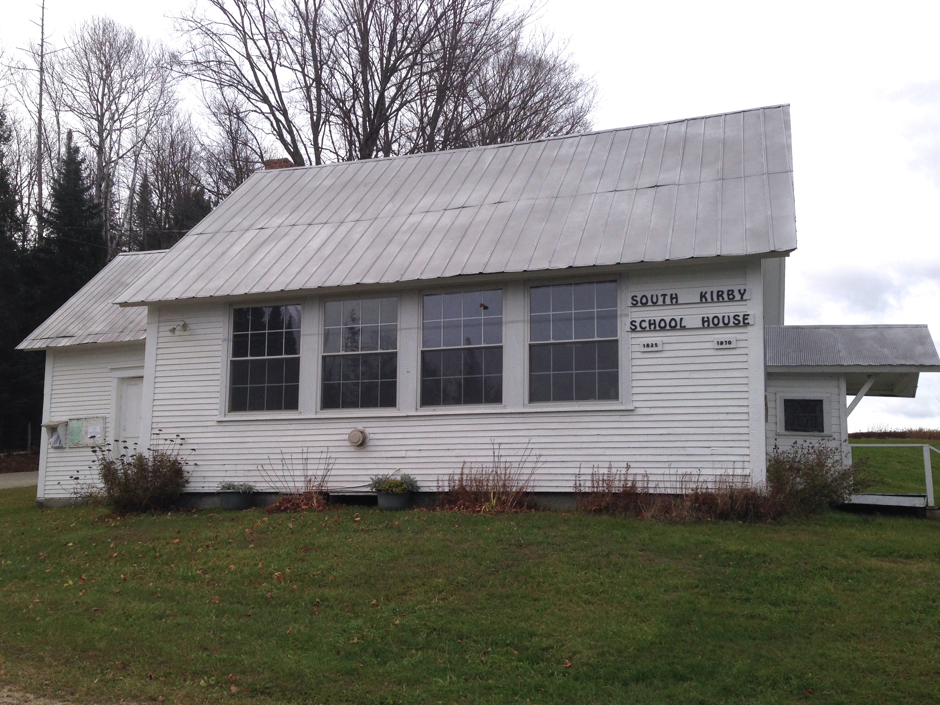 This was the one room school house for South Kirby from 1825 - 1970